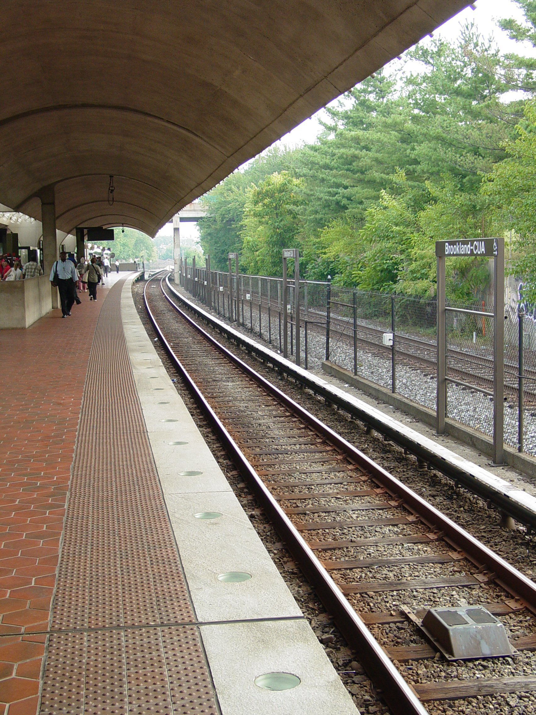 Brookland-CUA Metro station